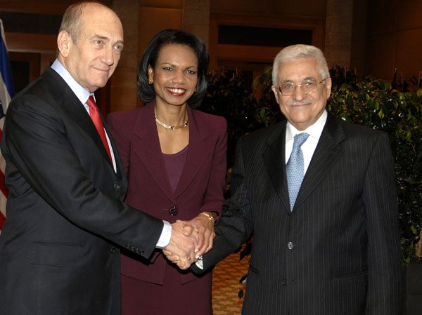 United States Secretary of State Condoleezza Rice, Israeli Prime Minister Ehud Olmert and Palestinian President Mahmoud Abbas at their trilateral meeting at the David Citadel Hotel, Jerusalem.